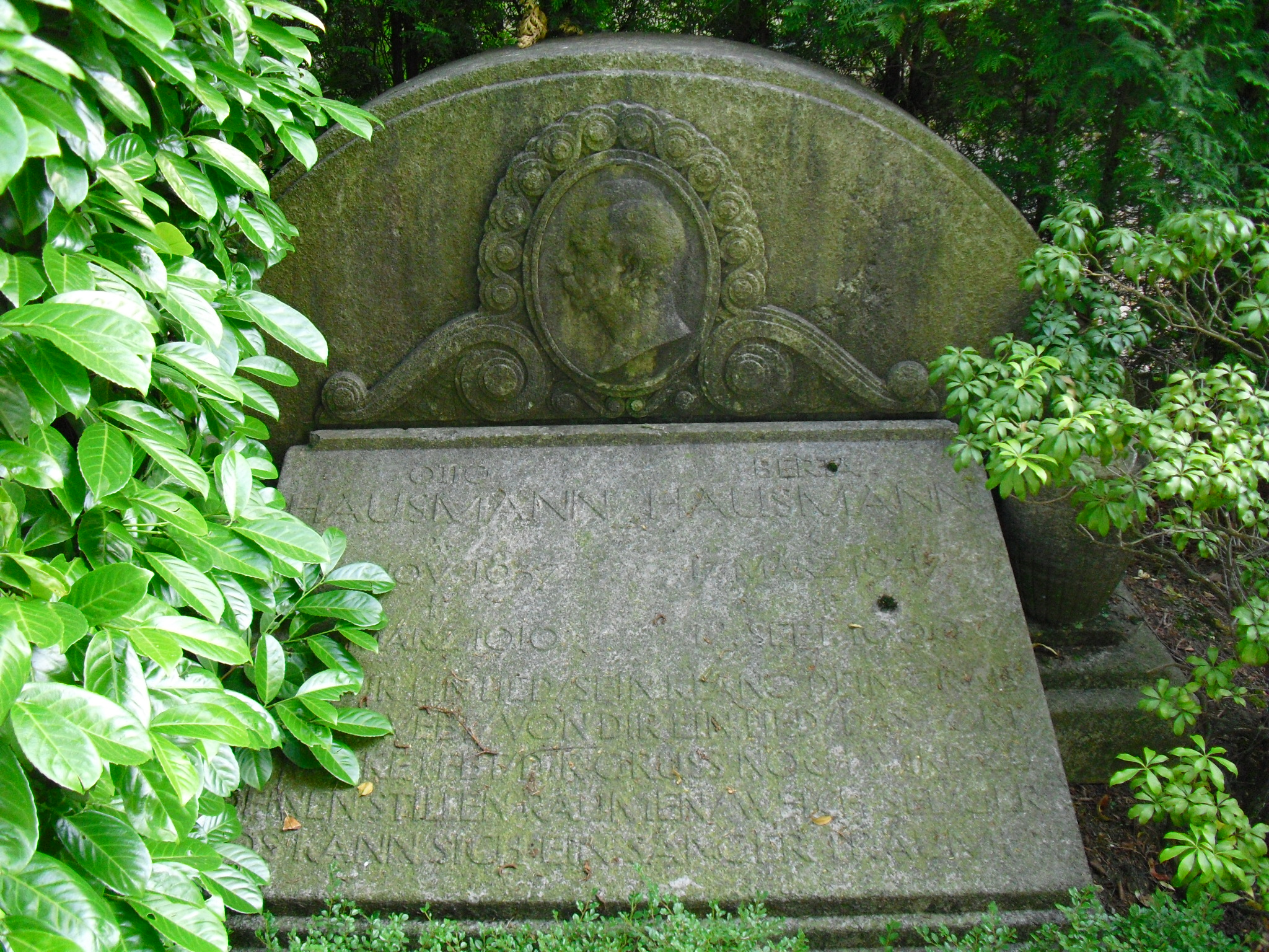 Grave of German writer and painter Otto Hausmann in Reformierten Friedhof Hochstraße in Wuppertal, sculpted by Erich Cleff.